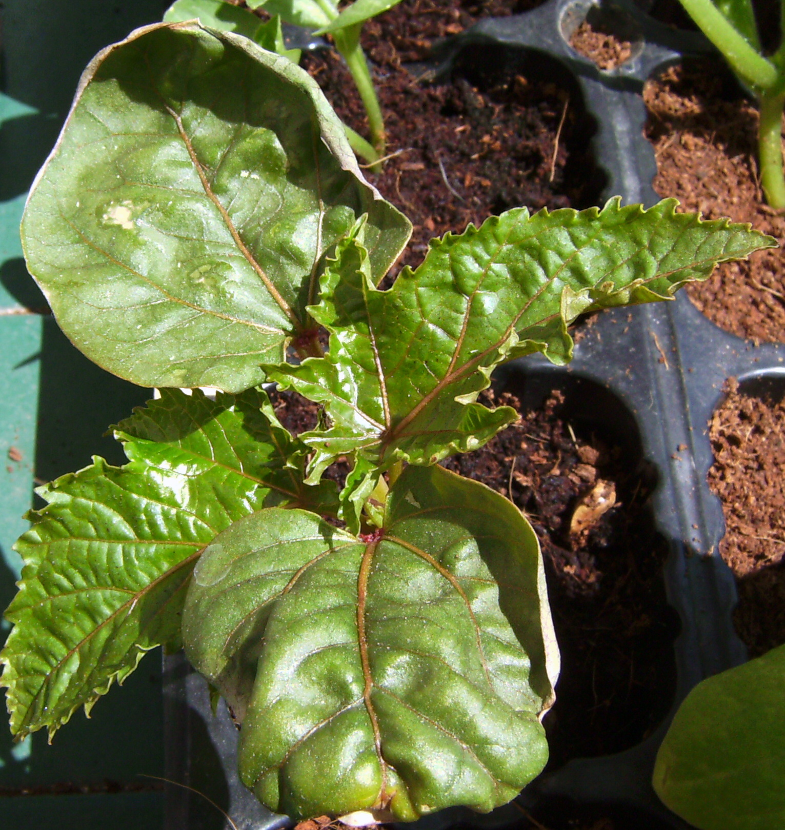 Riciunus communis, young cultivated plant from Canary Islands commercial seeds, Barcelona Catalonia